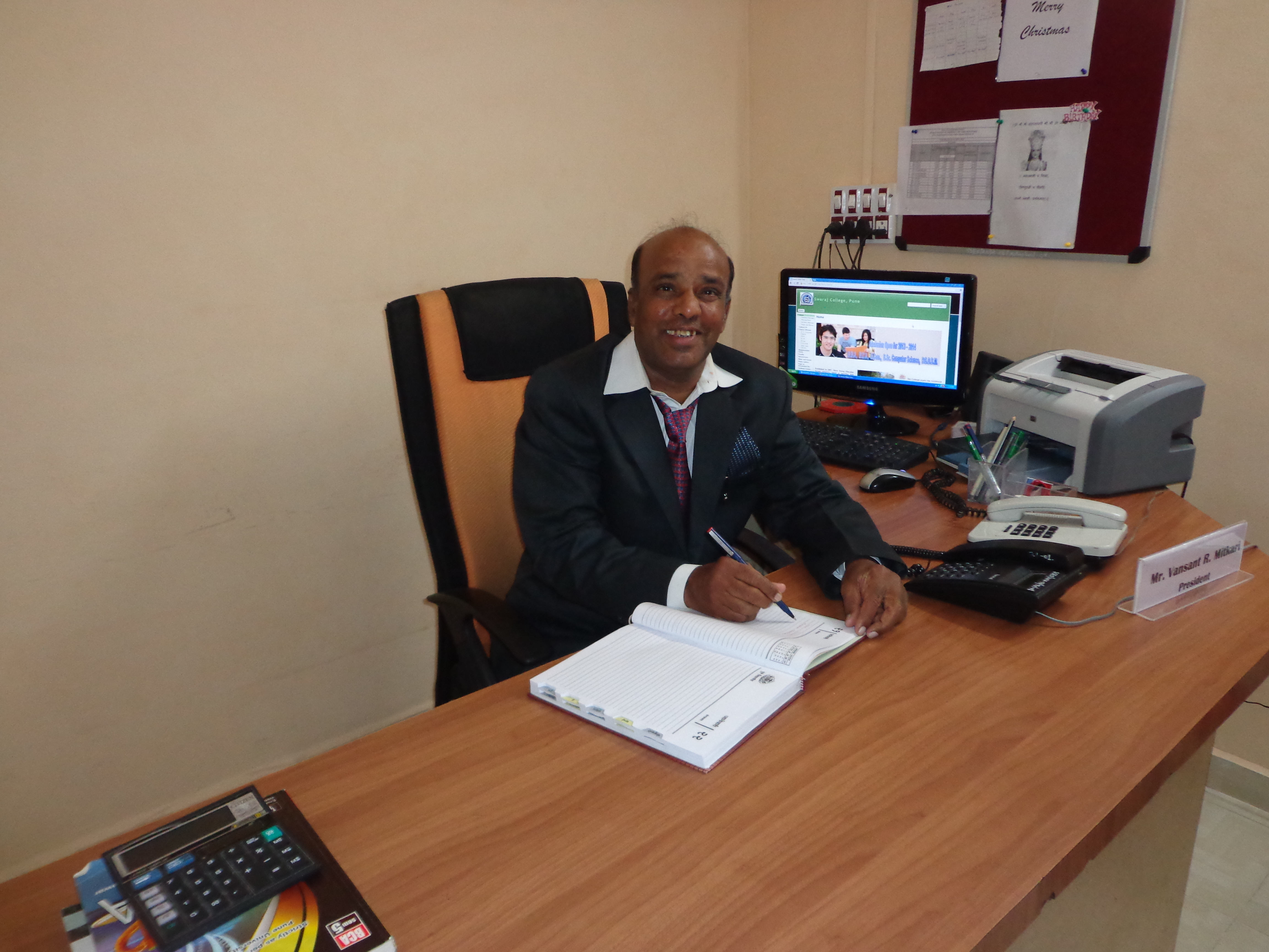 Photo of Vasant Mitkari